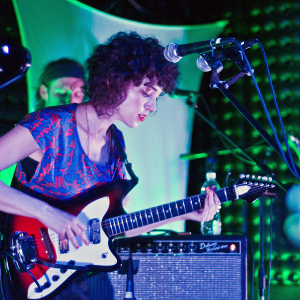 St. Vincent, performing in San Diego on May 30, 2009